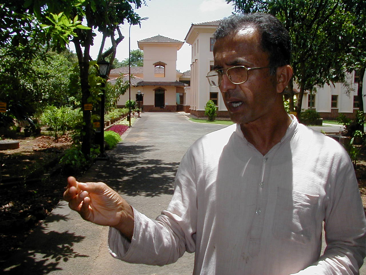 Thomas Stevens Konknni Kendr director Fr Pratap Naik sj, at the campus. Photo by Frederick "FN" Noronha. 2004.